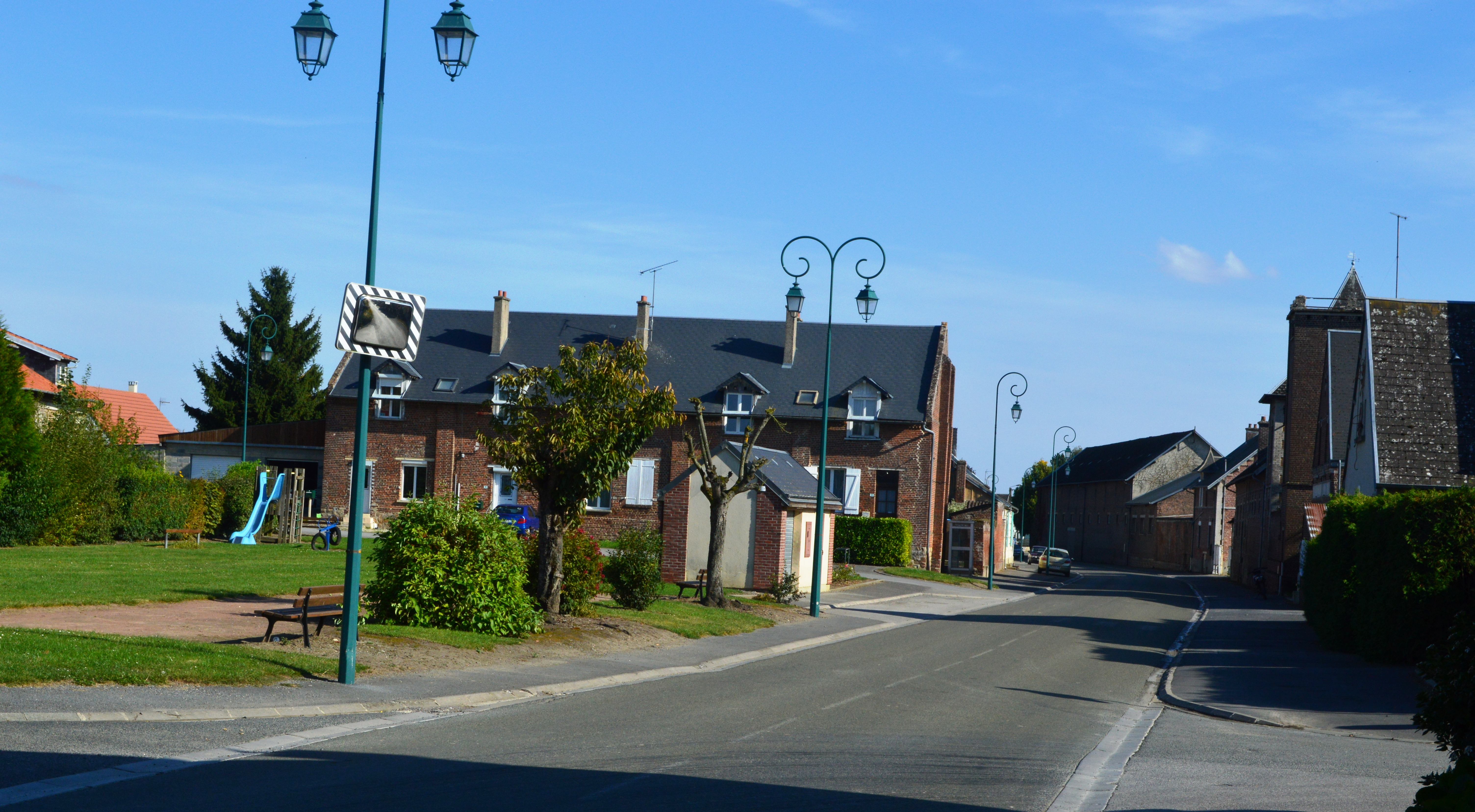 A street in Aubigny-aux-Kaisnes